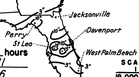 Rainfall which fell across Florida from June 11-16, 1934 to the northeast of a tropical cyclone